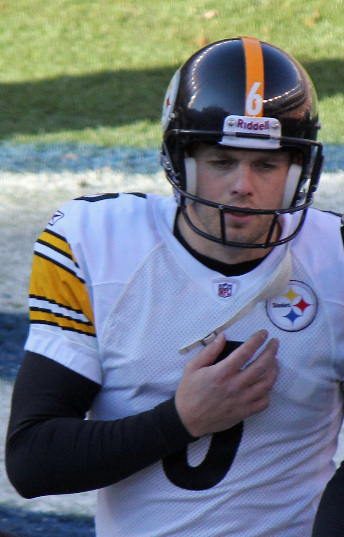 Shaun Suisham, a player on the National Football League.